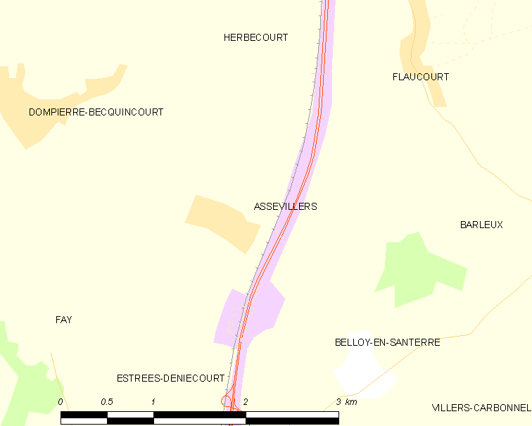 Map of French municipality Assevillers